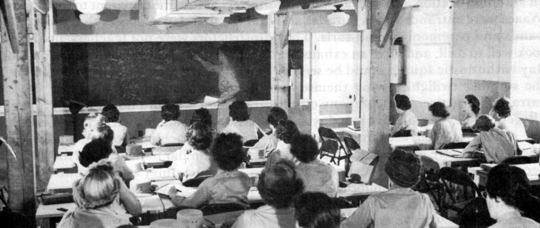 First Officer Candidate Class, WAAC Officer Training School, Fort Des Moines, Iowa, 20 July - 29 August 1942; classroom instruction.